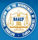 2007 NAACP Presidential Primary Forum: two debates/ One with Eight Democrats and one with a single Republican (Tom Tancredo) at annual convention for the National Association for the Advancement of Colored People